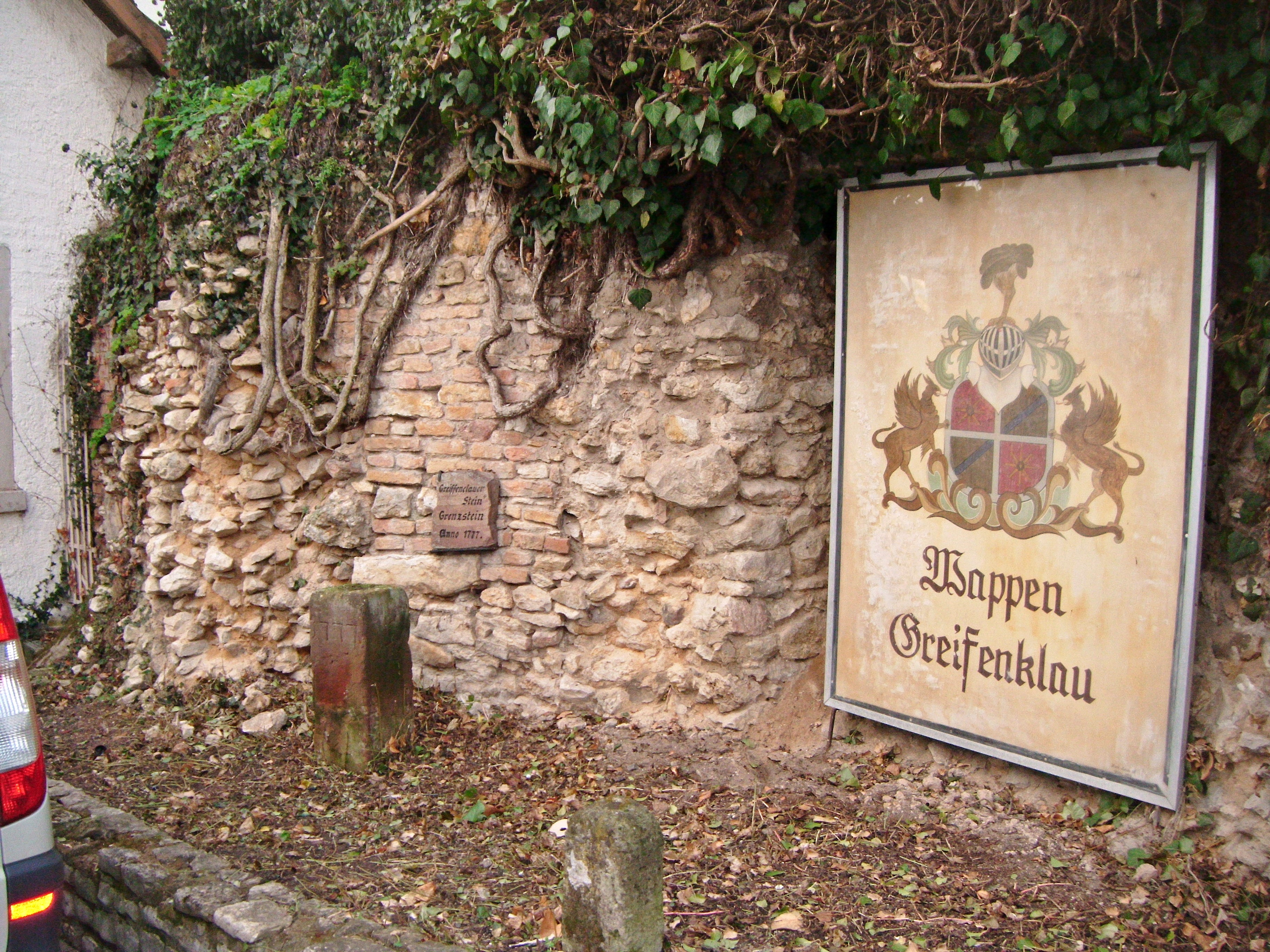 Gundheim, Mauerrest von der ehemaligen Burg, Schlossgasse 54